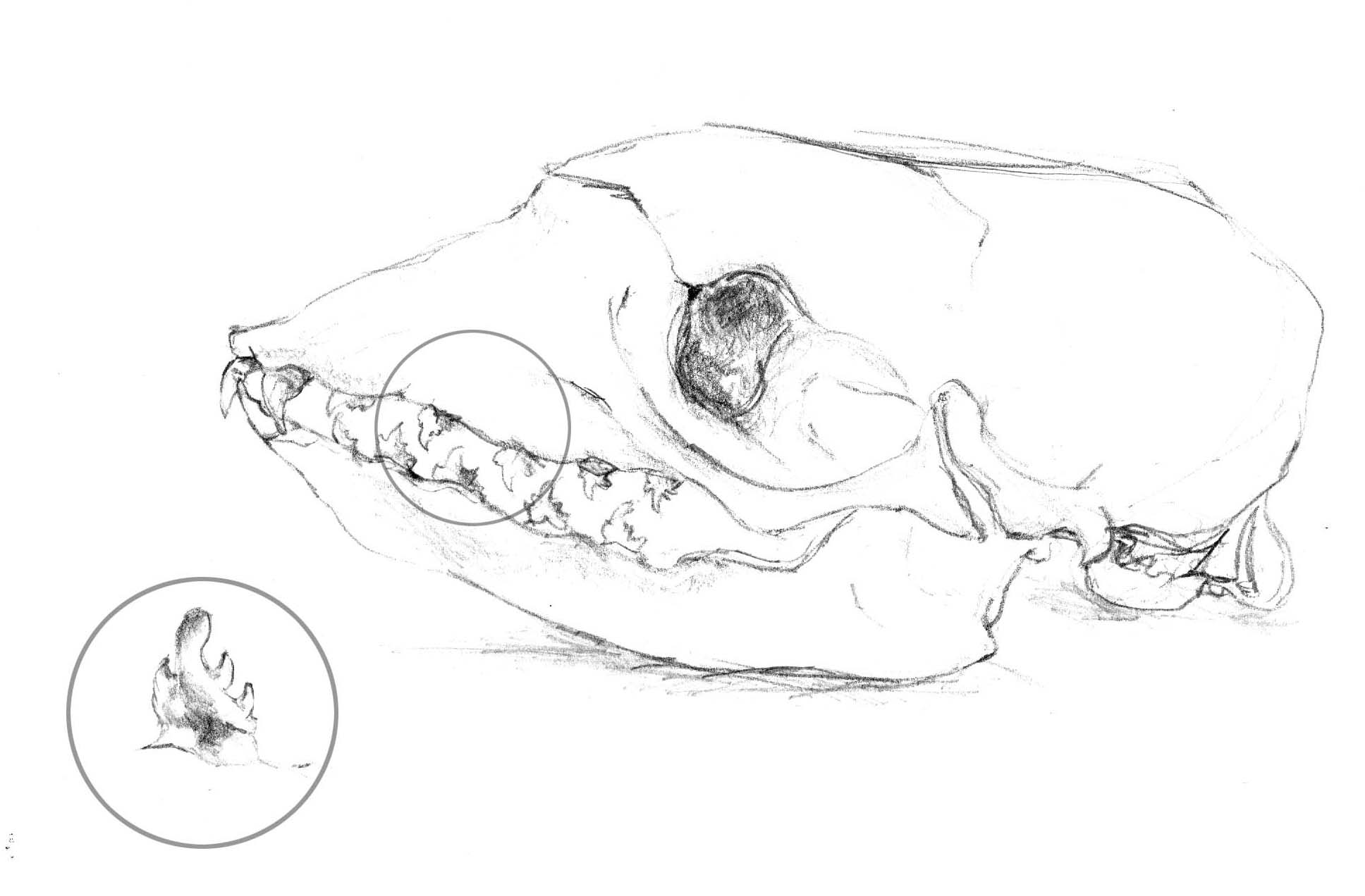 Skull and teeth of a Crabeater Seal